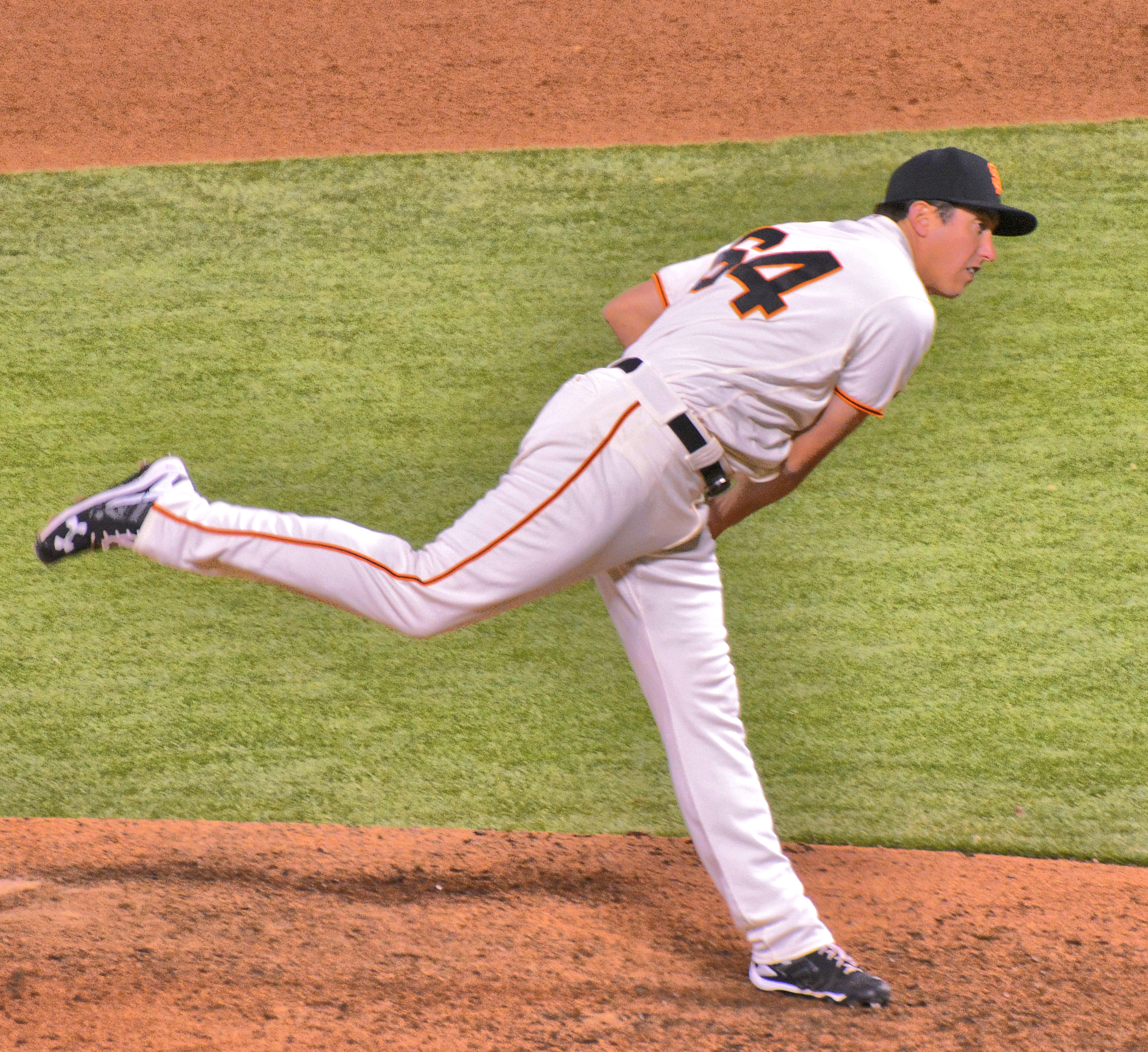 Derek Law - San Francisco Giants